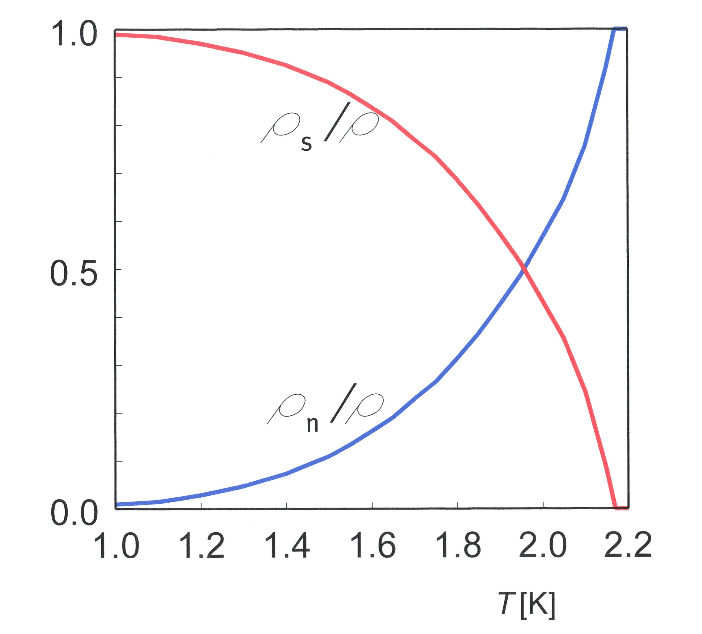 Normal and superfluid density of HeII